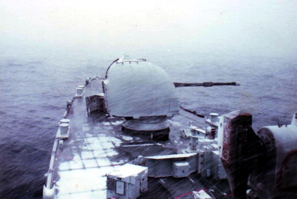 HMS Cardiff in a snow storm 27 May 1982 - Falklands War